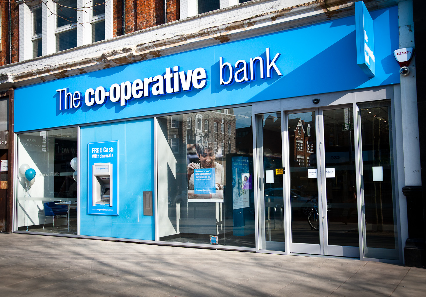 Branch opening 24th April 2013